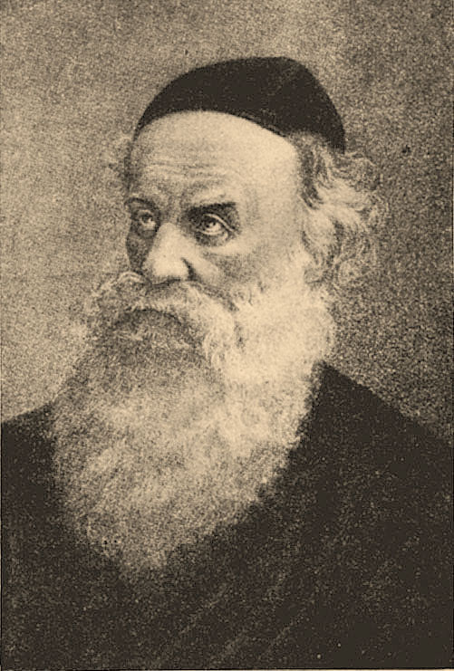 Illustration from Brockhaus and Efron Jewish Encyclopedia (1906—1913). Shneur Zalman of Liadi.